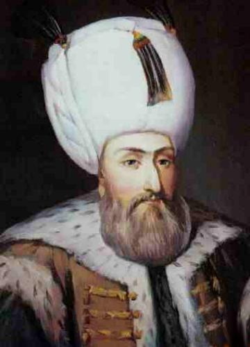 Painting attributed to Titian c.1560